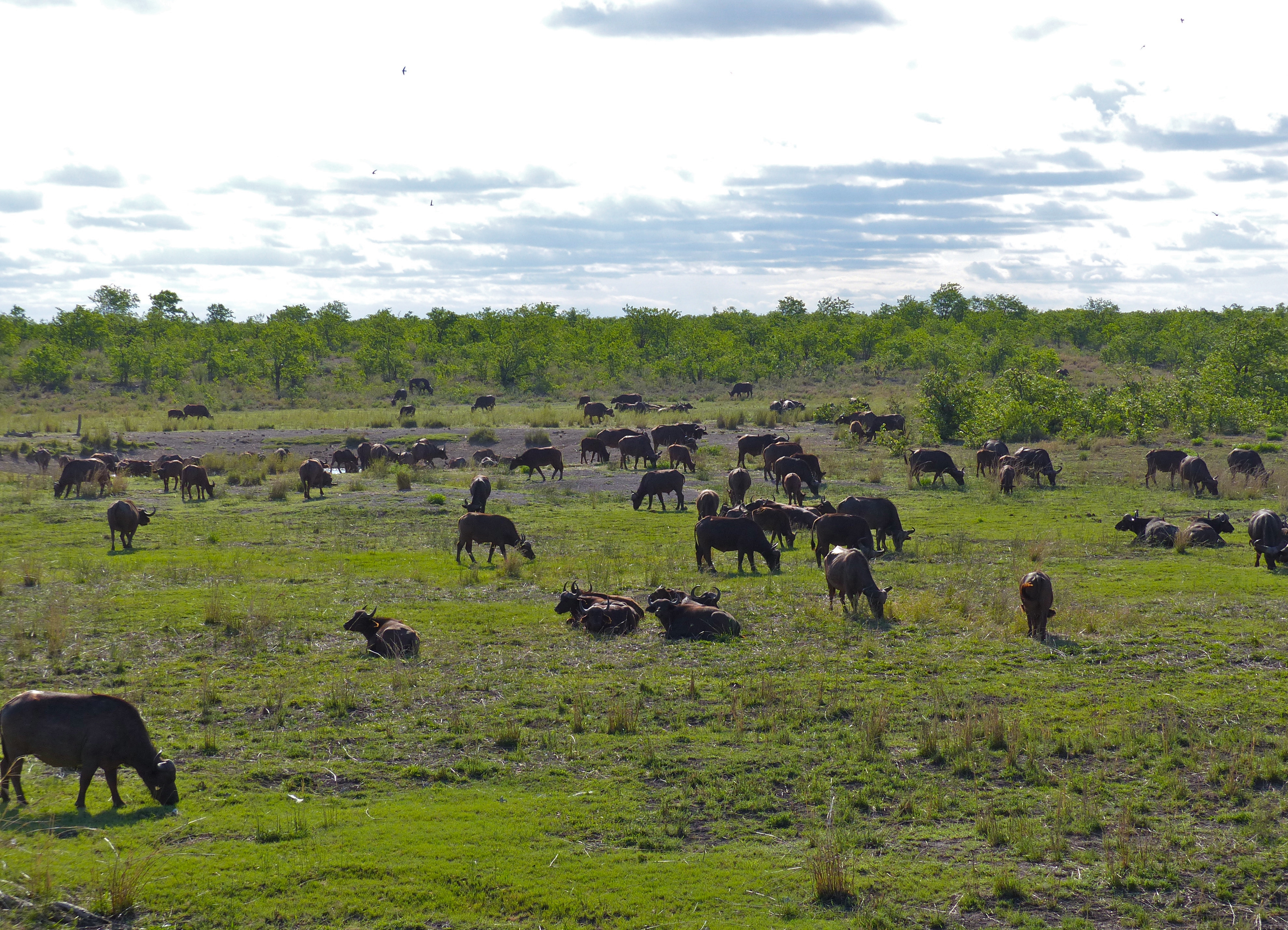 Malopenyana Waterhole, H1-6 Road North of Letaba, Kruger NP, SOUTH AFRICA